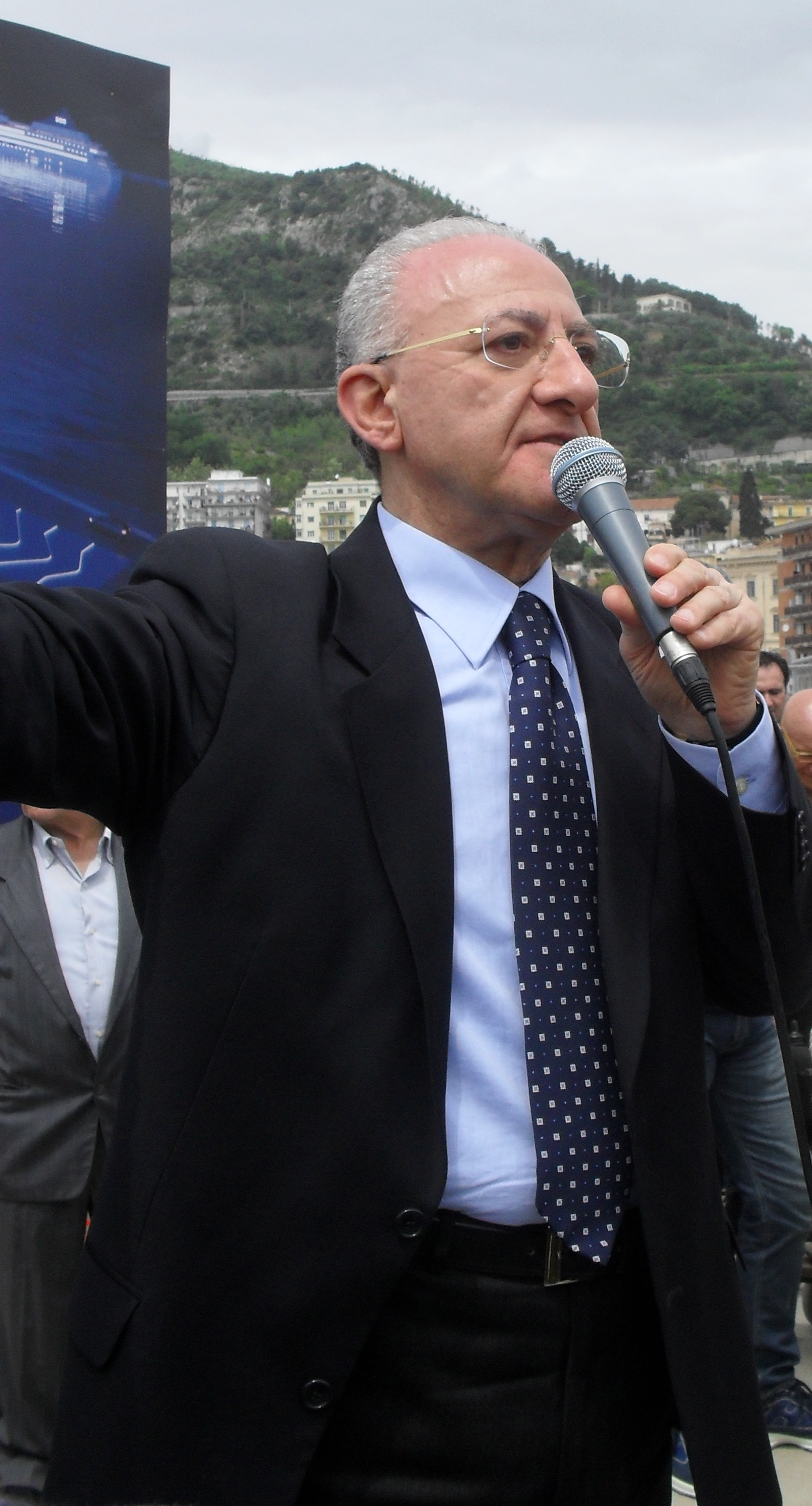 Vincenzo De Luca, major of Salerno, in 2011.